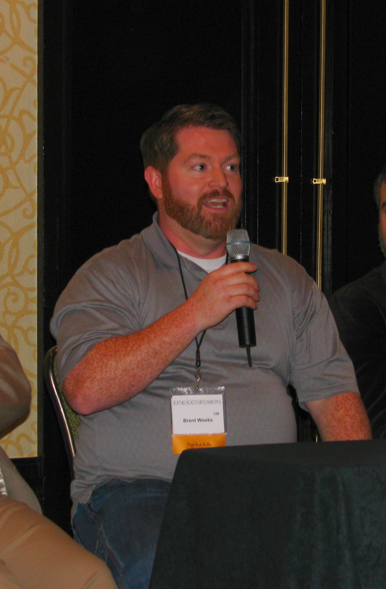 Subterranean Press Special Guest at ConFusion 2012.